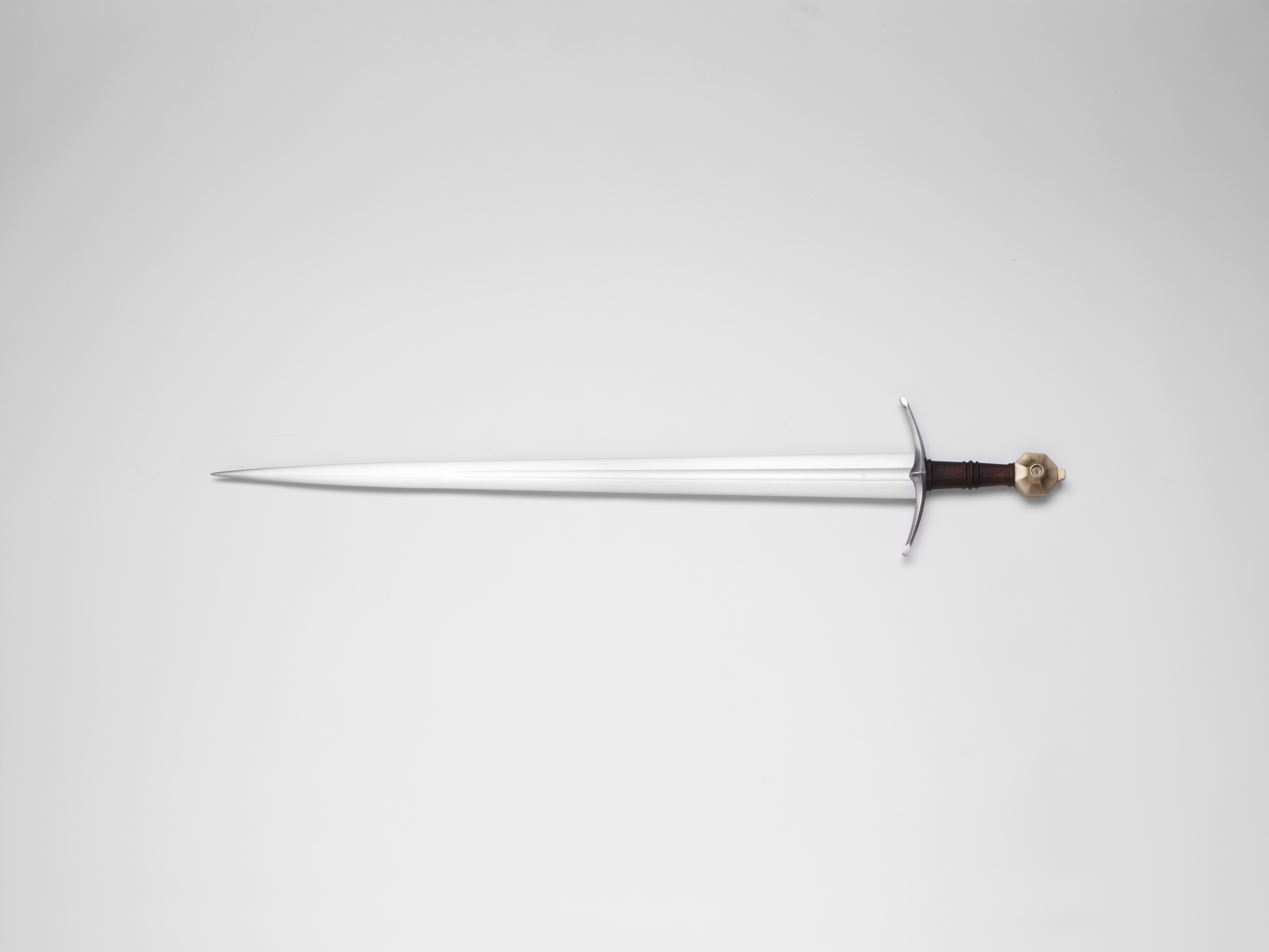 The Prince Limited Edition Medieval Sword